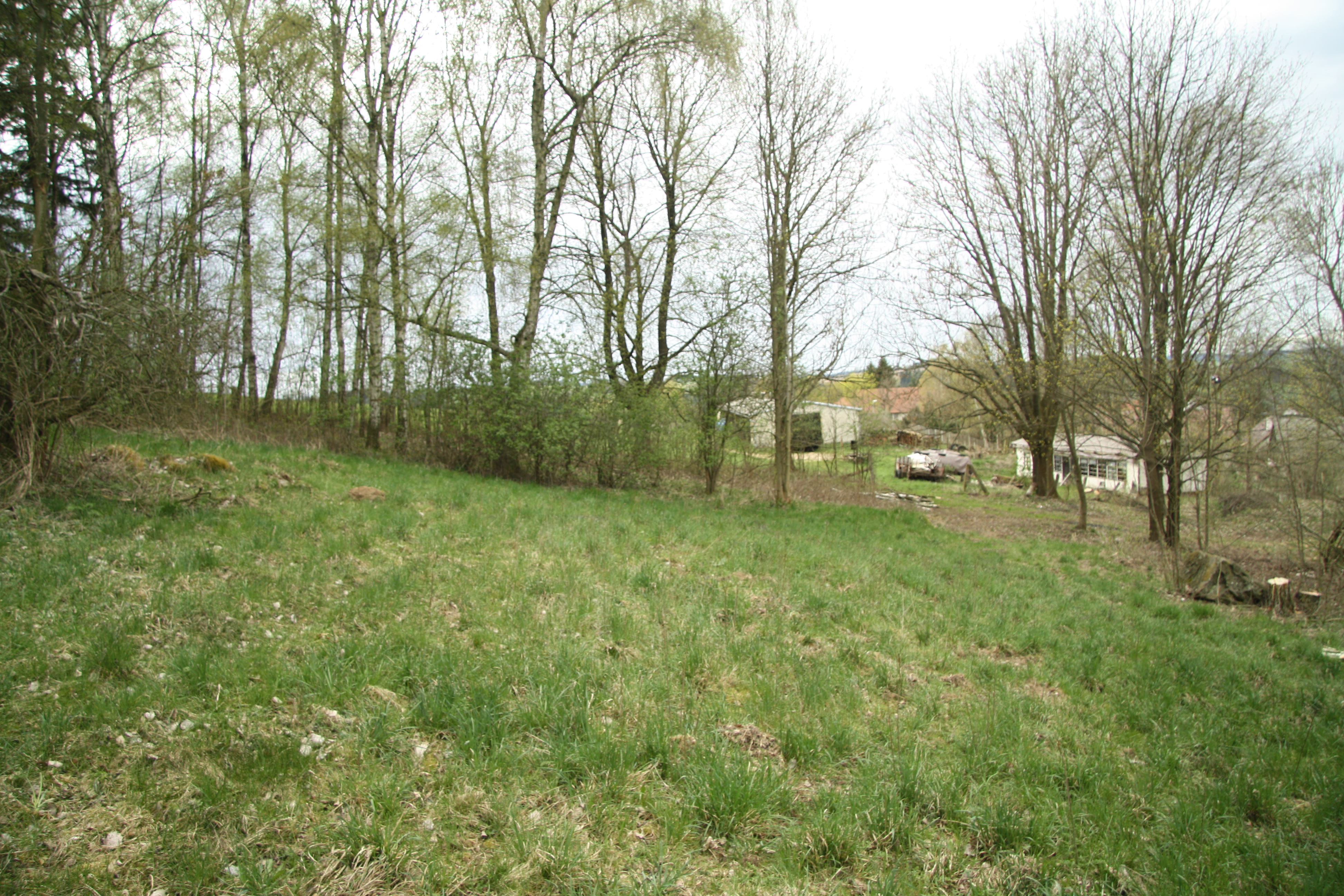 Down part of natural monument Pahorek u Vržanova in Vržanov, Kamenice, Jihlava District.